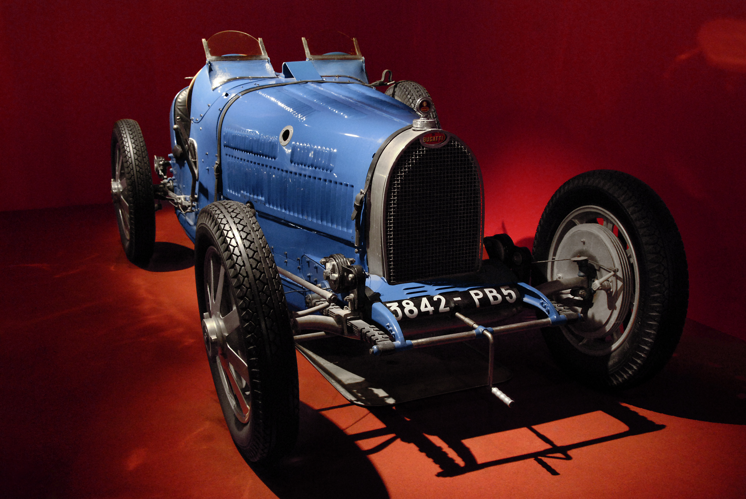 Bugatti Type 35B car from the Schlumpf collection at Cité de l'Automobile in Mulhouse, France. Fitted with a compressor, the 35B is a more powerful variant of the famous Type 35. Vehicle data: Origin: France, 1929 Engine: 8 cylinder, 2263 cm³, 149 hp Max. speed: 210 km/h